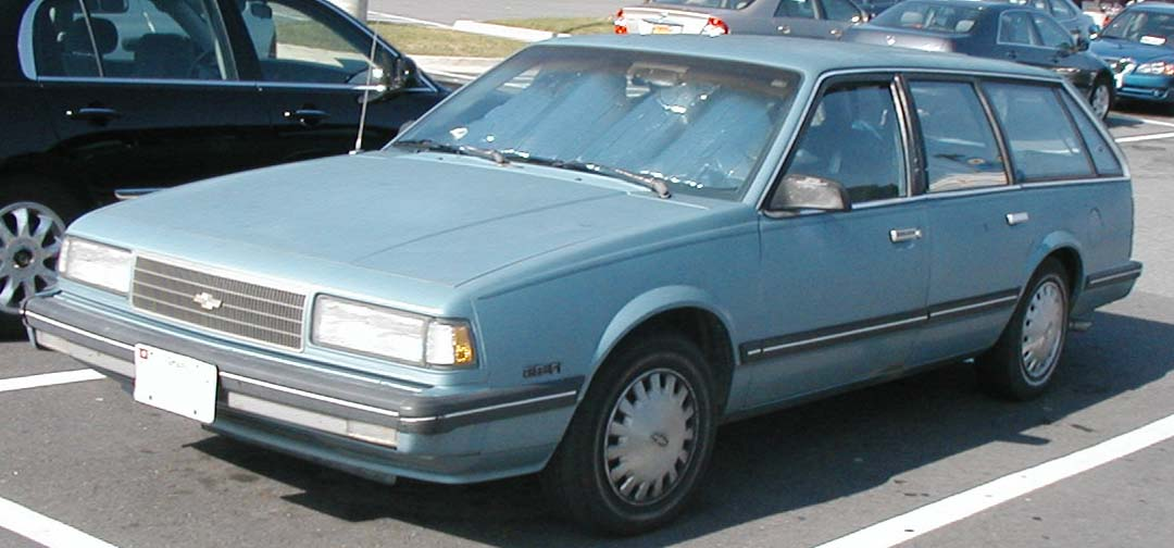 1987-1989 Chevrolet Celebrity wagon photographed in USA.